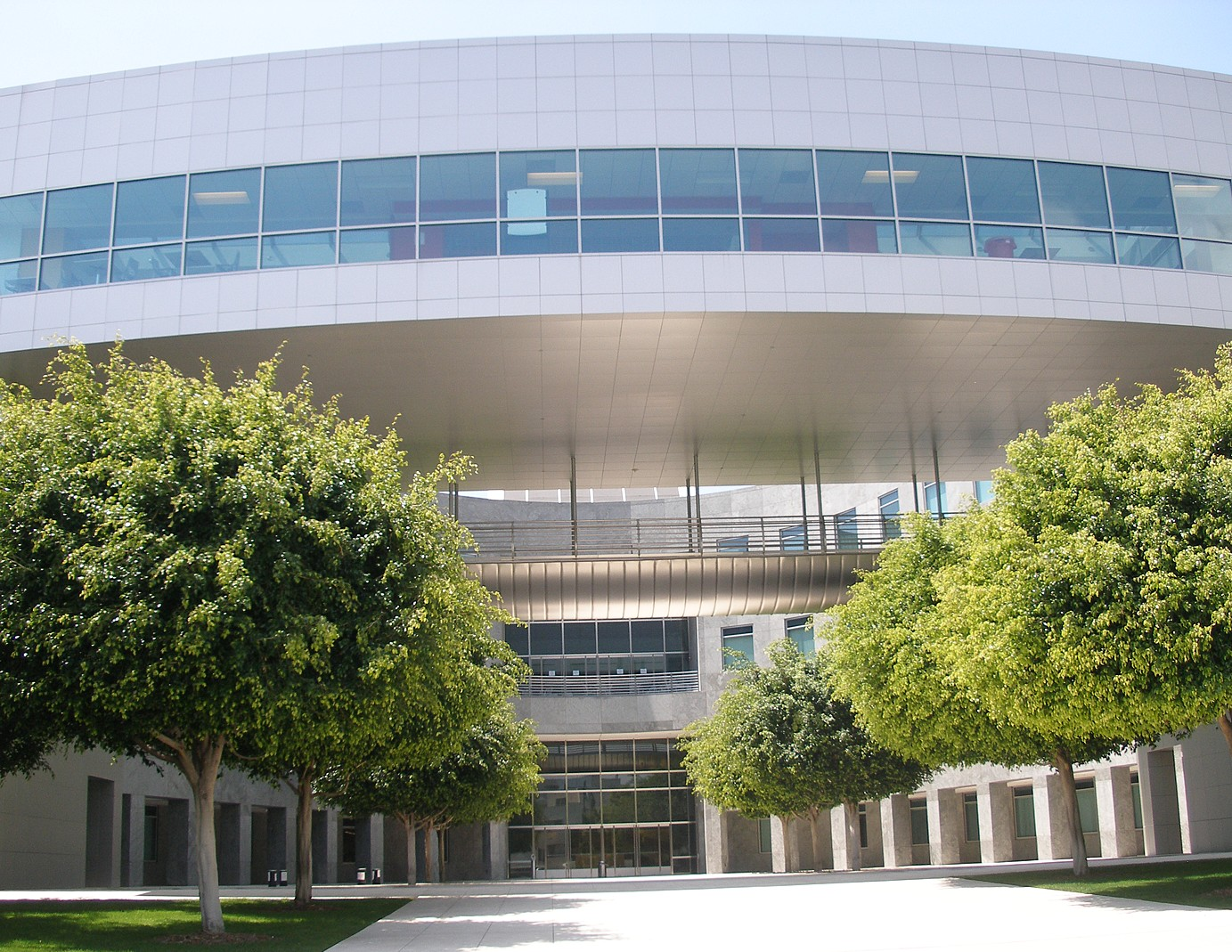 The former headquarters of Fox Interactive Media at 407 N. Maple Drive in Beverly Hills, California. MySpace was previously housed on the second floor of this building. Since 2016, the building has been home to Fandango and its various websites, including Rotten Tomatoes. Photographed on April 21, 2007 by user Coolcaesar.